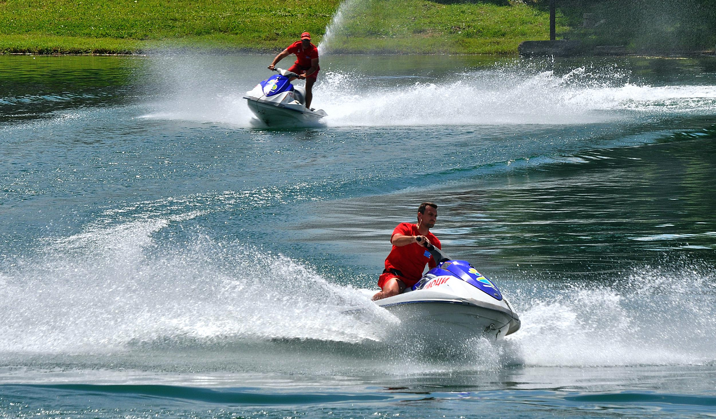 Skuteri u punoj brzini